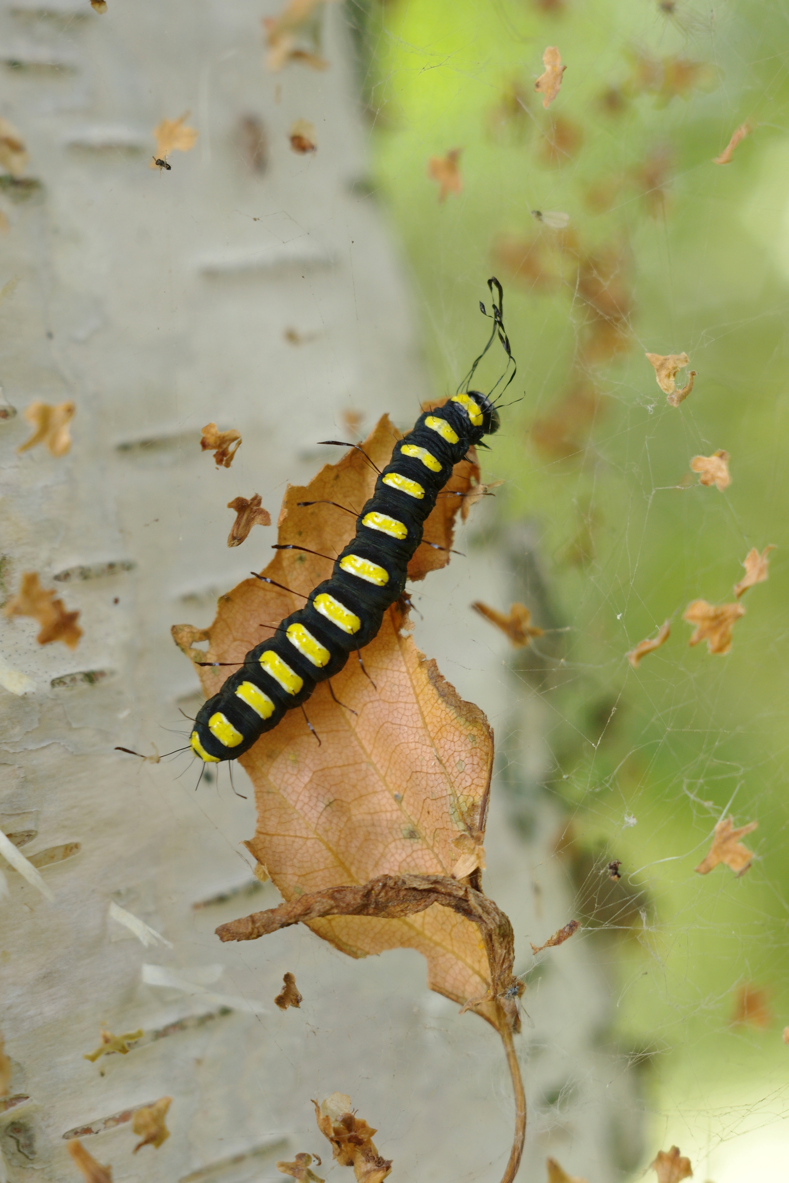 Acronicta alni in Pärispea village, Estonia.